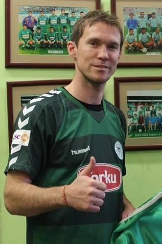 Photo orginally taken by me by mobile phone in Hleb's conference